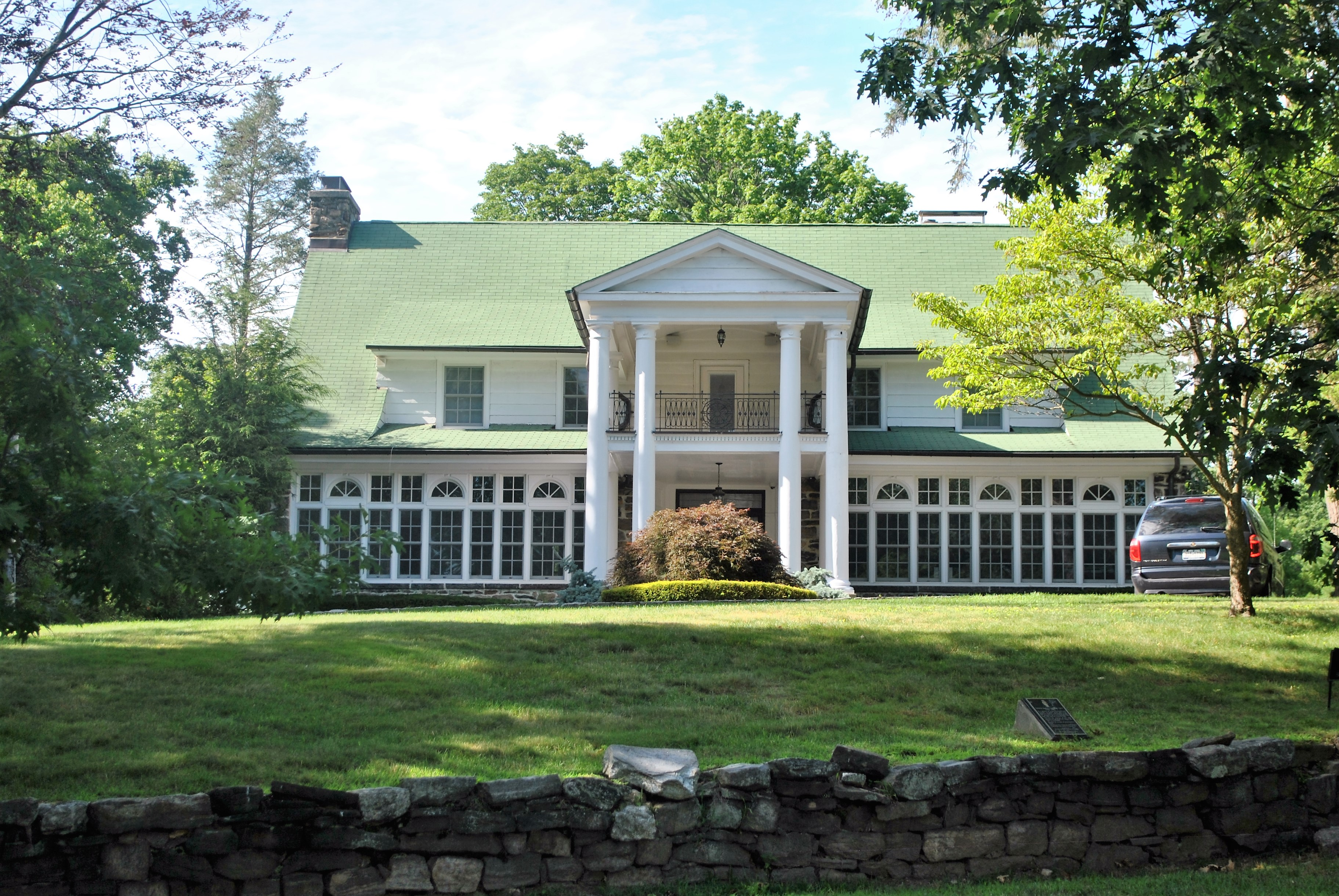 Image originally published in Queer Places: Retracing the Steps of LGBTQ people around the World Authored by Elisa Rolle